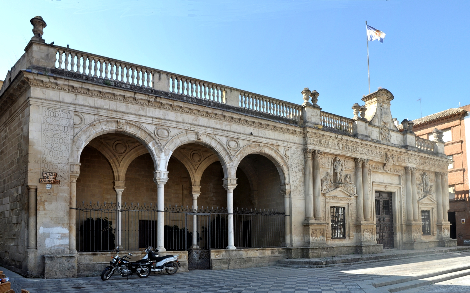 Old City Hall, Asuncion Sq. Jerez